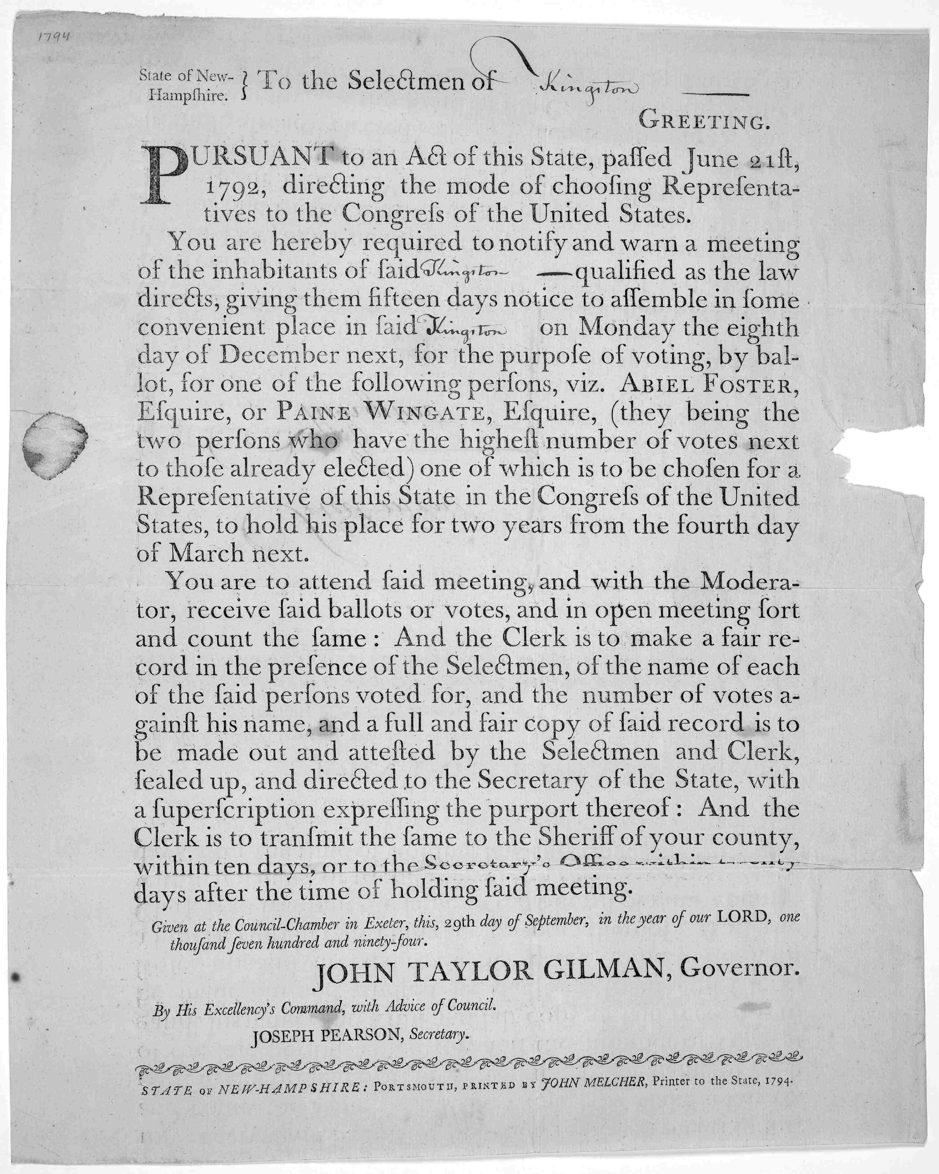 Order from John Taylor Gilman, Governor of New Hampshire, to selectmen of Kingston, New Hampshire, to establish a meeting to elect representatives to the United States Congress. Abiel Foster and Paine Wingate specified as two candidates to be chosen between. Document from The Library of Congress, Washington, D. C.